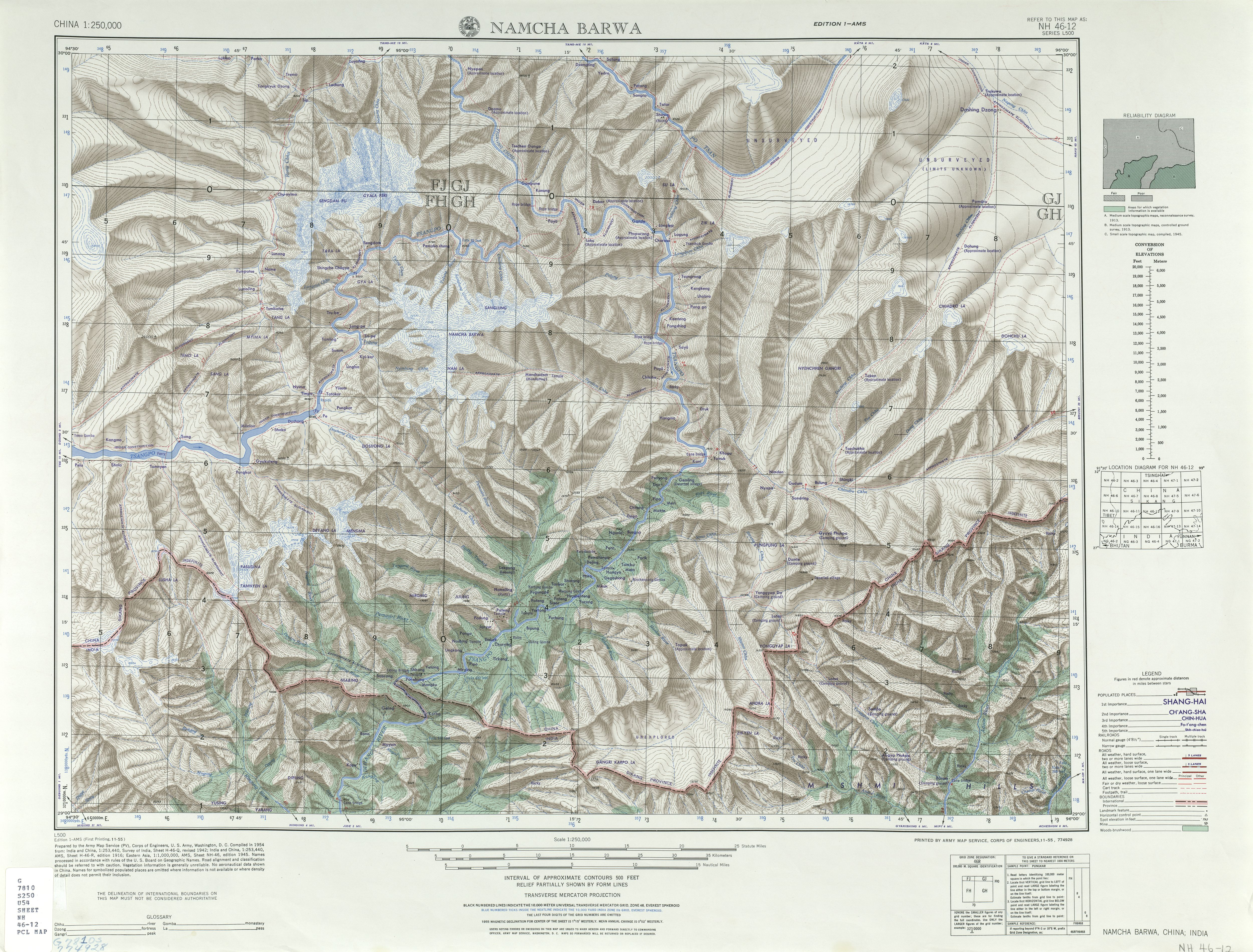 Map of Namcha Barwa area, Tibet